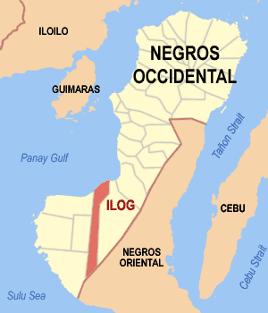 Map of Negros Occidental showing the location of Ilog